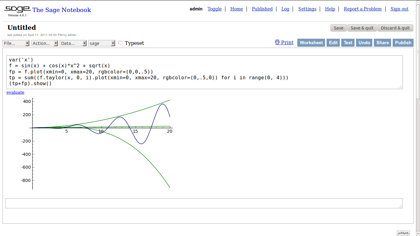 A screenshot of Sagemath working.